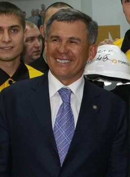 President of Tatarstan Rustam Minnexanov and Taneco employeers